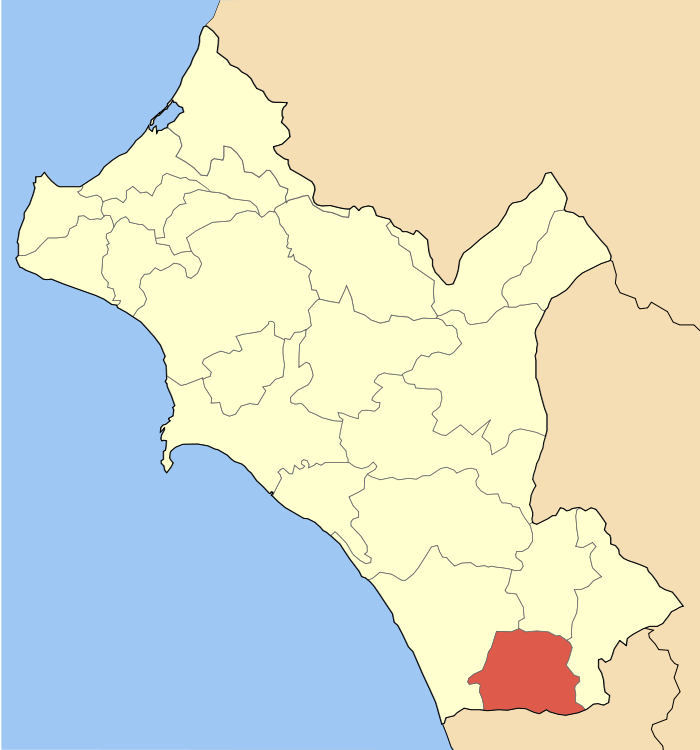 Locator map of Figalia municipality (Δήμος Φιγαλείας) in Elis perfecture (Νομός Ηλείας) in Greece.